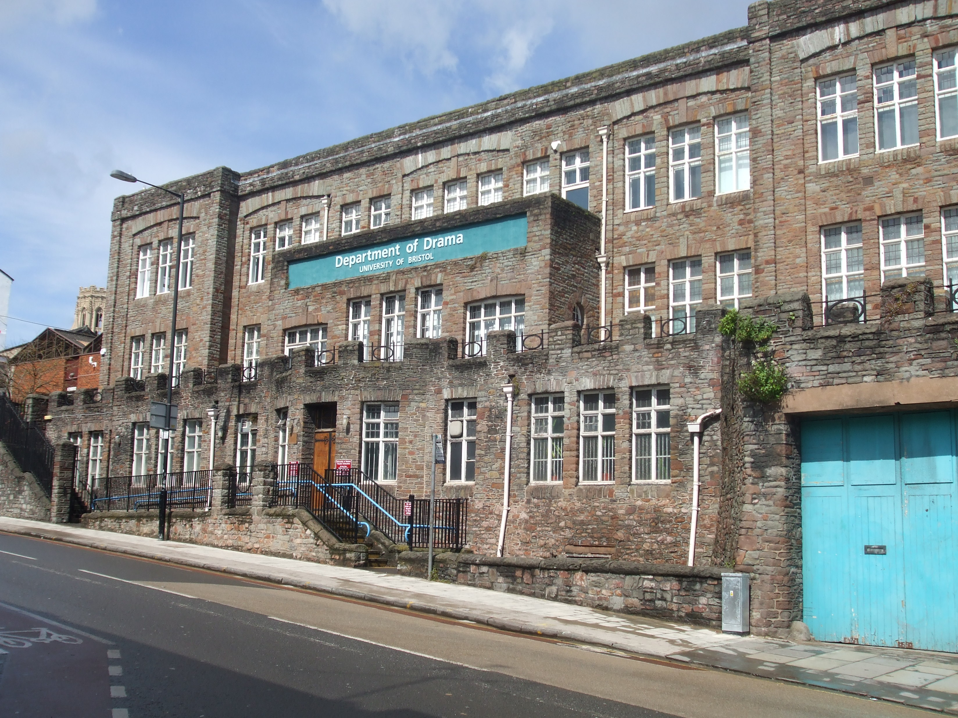 Drama Department, University of Bristol